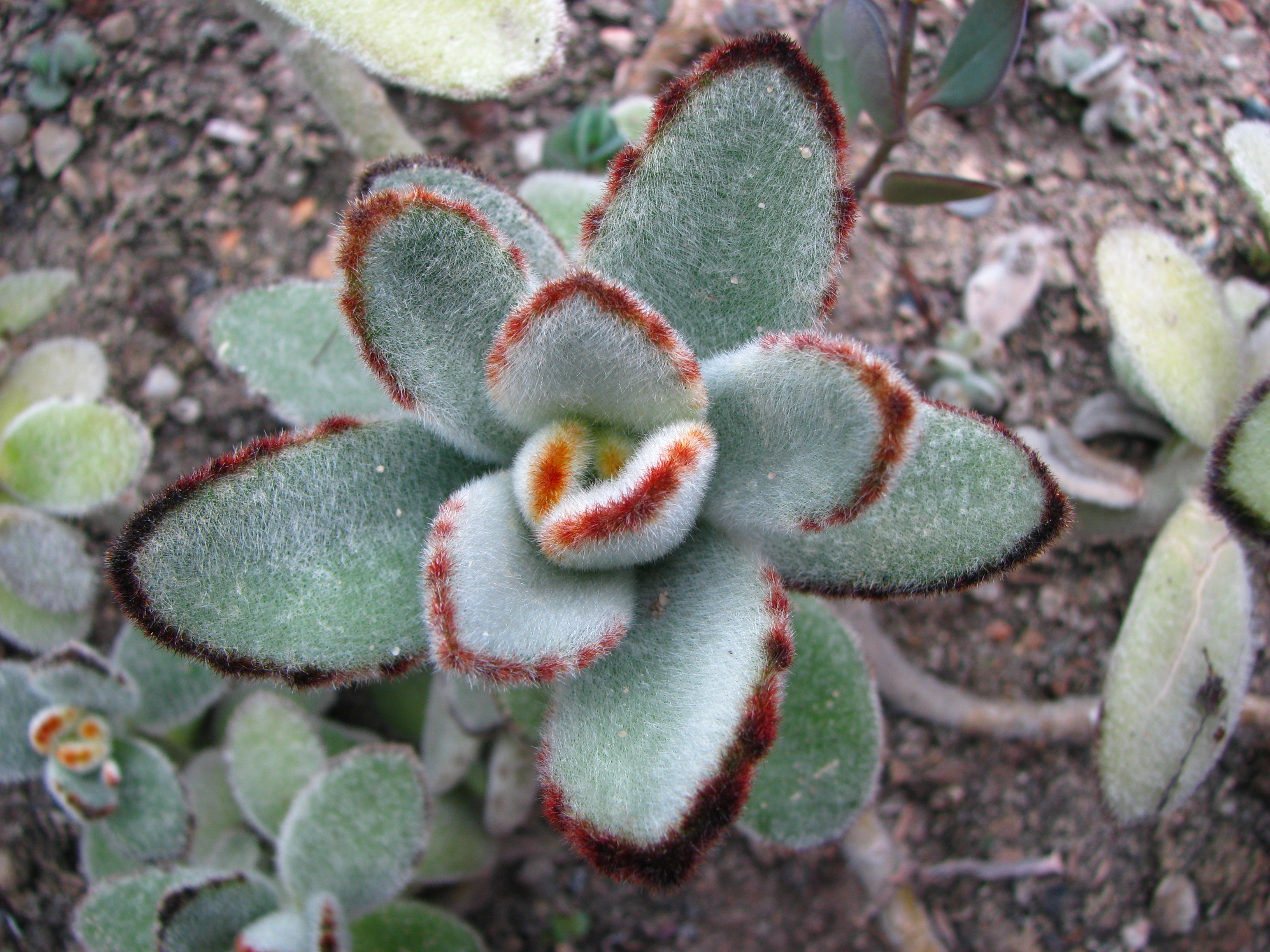 Kalanchoe tomentosa (Stapf) Raym.-Hamet, cultivated in Wrocław University Botanical Garden, Poland.